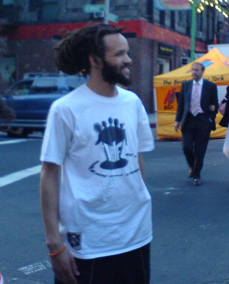 Savion Glover (left) is a great tap dancer who studied under Gregory Hines.